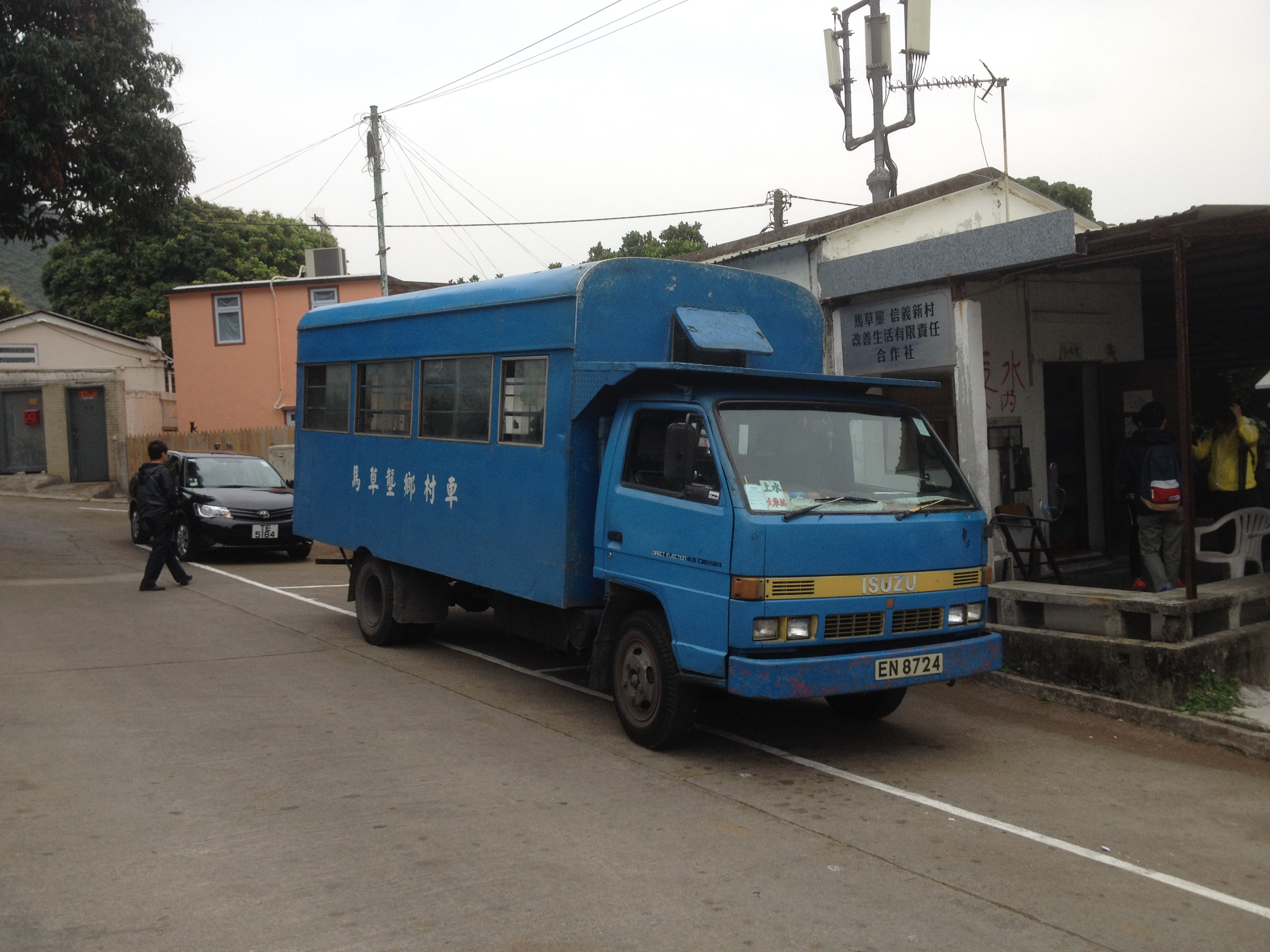 This photo is taken in Ma Tso Lung.